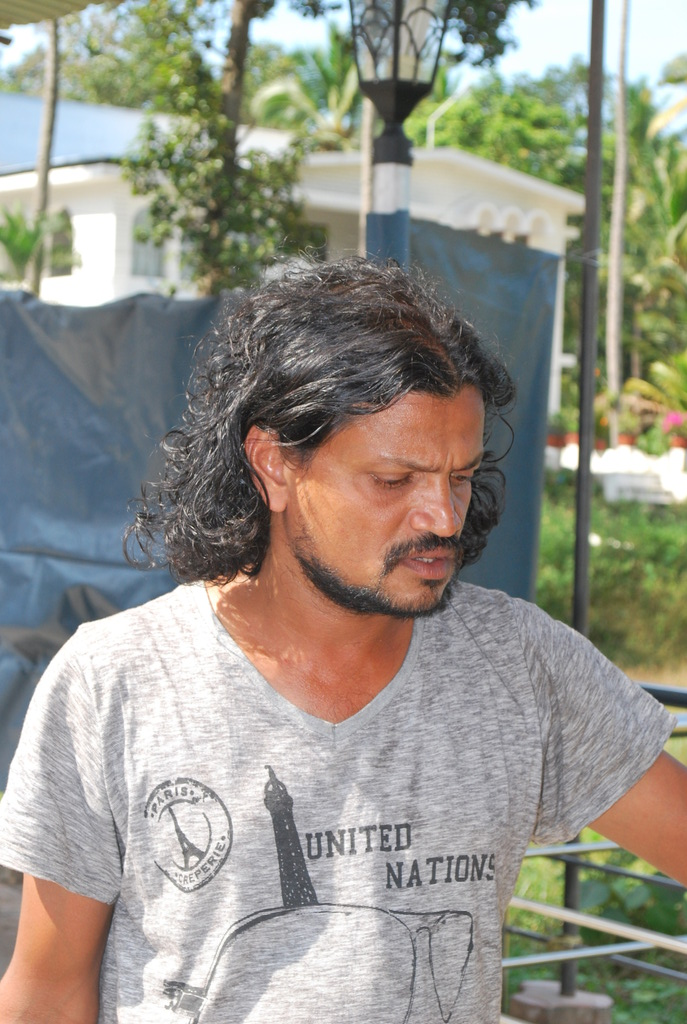 Sculptor Rajan Ariyalloor at Lalita kala academys Sculptor camp, Kayamkulam Dec 2014